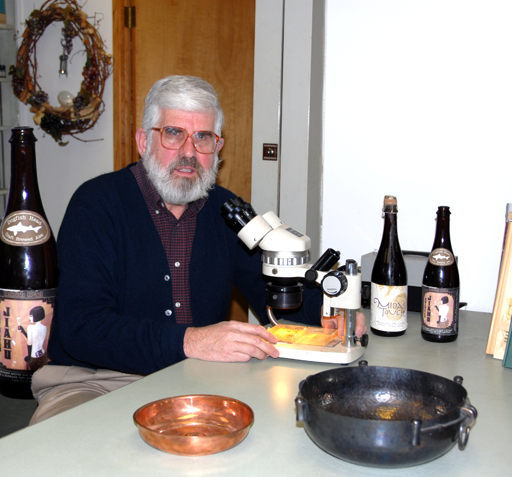 Dr. Patrick McGovern, Scientific Director of Biomolecular Archaeology Laboratory at the Penn Museum, examines a sample of the “King Midas” beverage residue under a microscope. The sample was recovered from a drinking-vessel found in the Midas Tumulus at the site of Gordion in Turkey, dated ca. 740-700 B.C. Replicas of two ancient drinking-bowls from the tomb are in the foreground